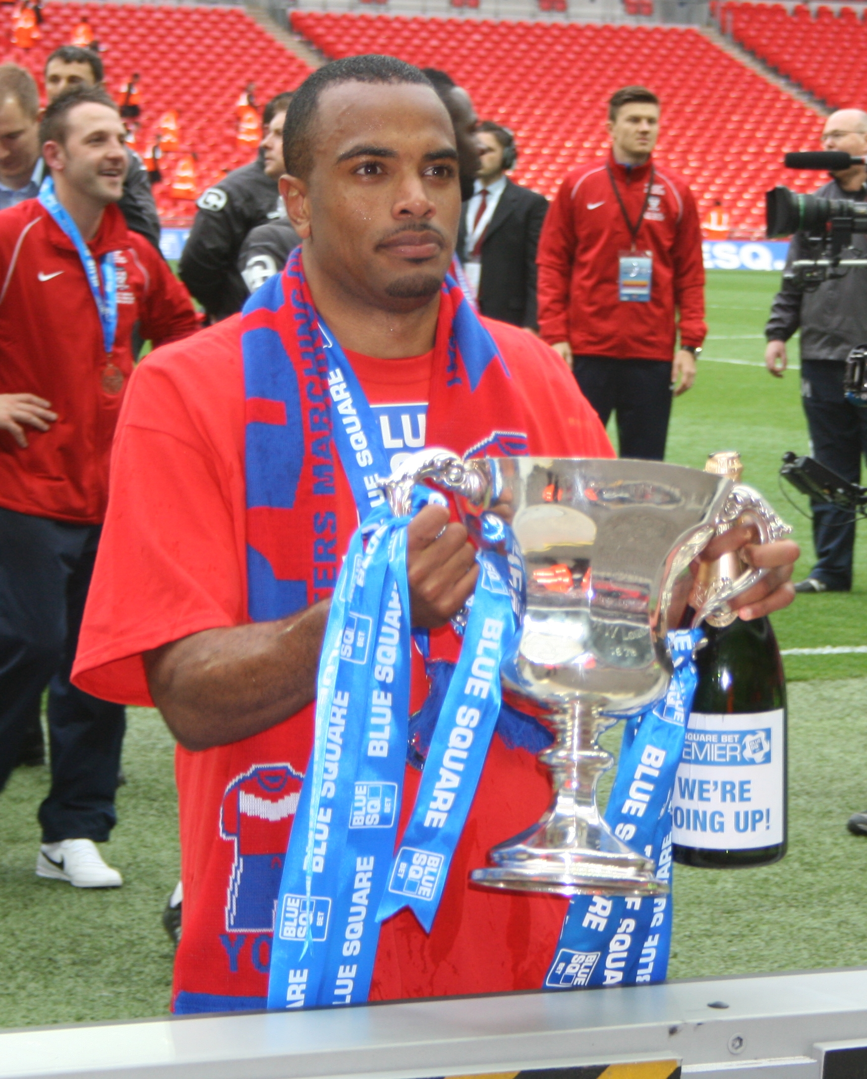 Lanre Oyebanjo after playing for York City against Luton Town at Wembley Stadium, London on 20 May 2012